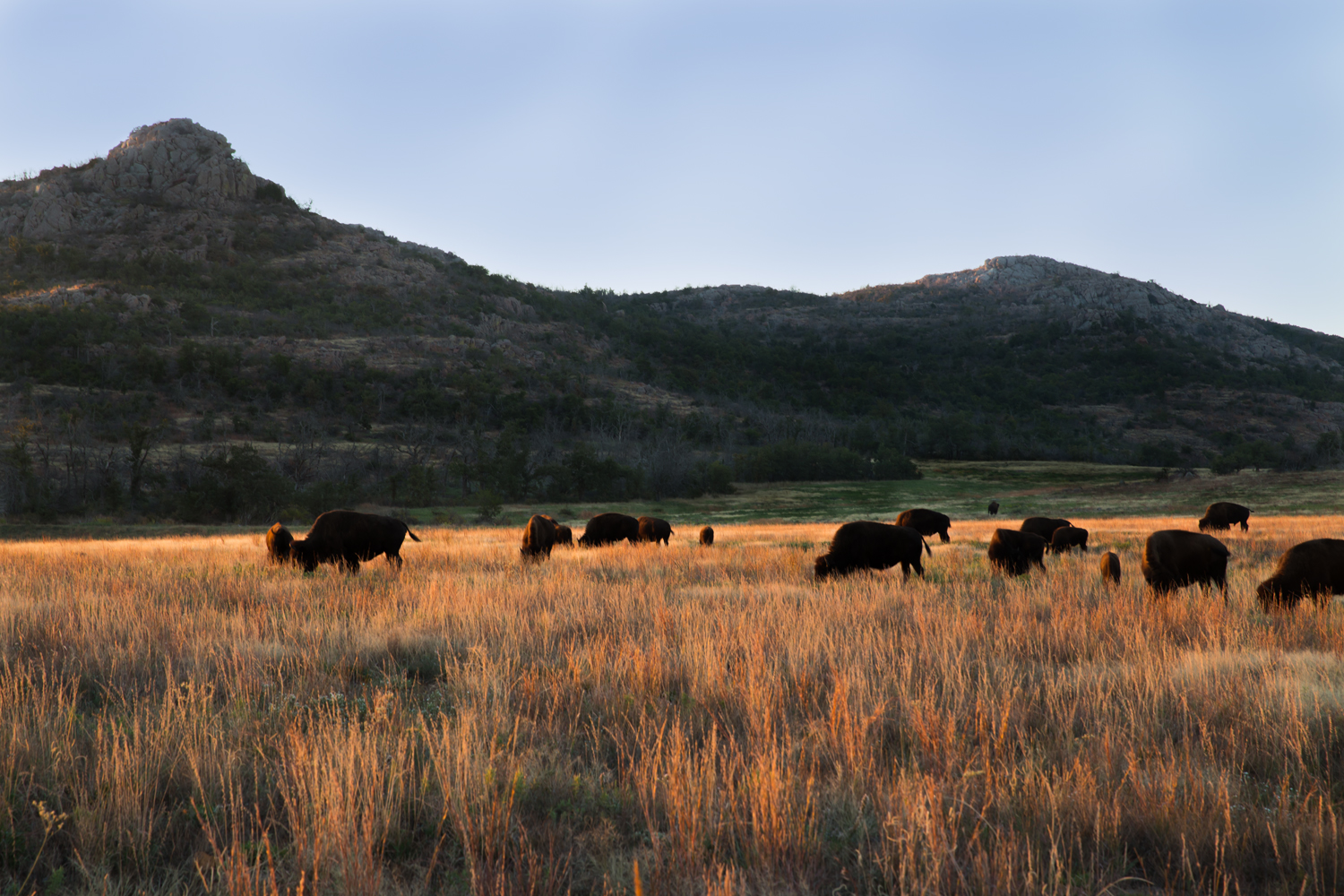 Bison grazing at sunrise. Wichita Mountains Wildlife Refuge, SW Oklahoma